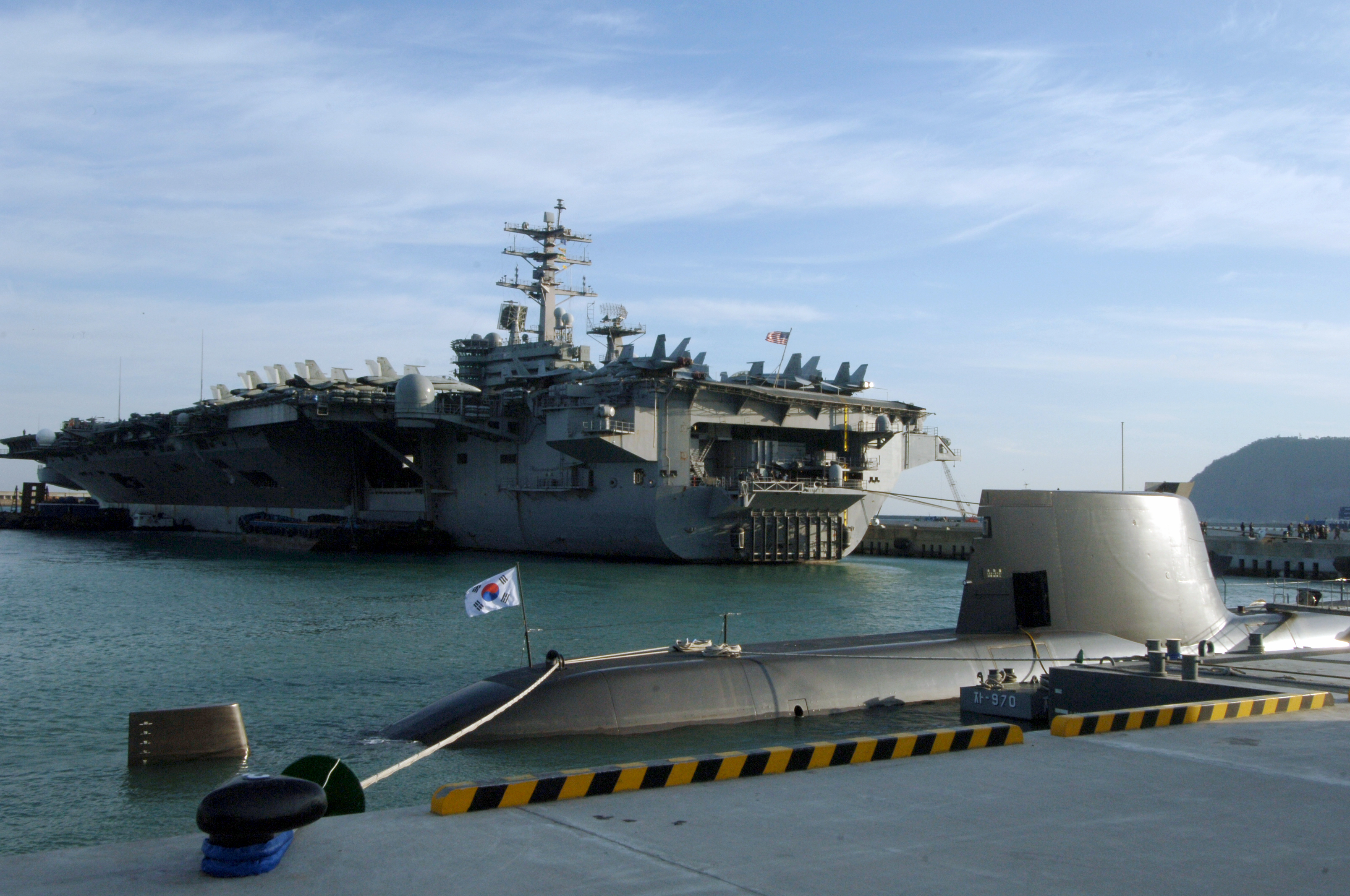 USS Nimitz (CVN 68) is moored near of the ROKS Son Won-il (SS 072), a Type 214 submarine, in Busan Naval Base, Republic of Korea.